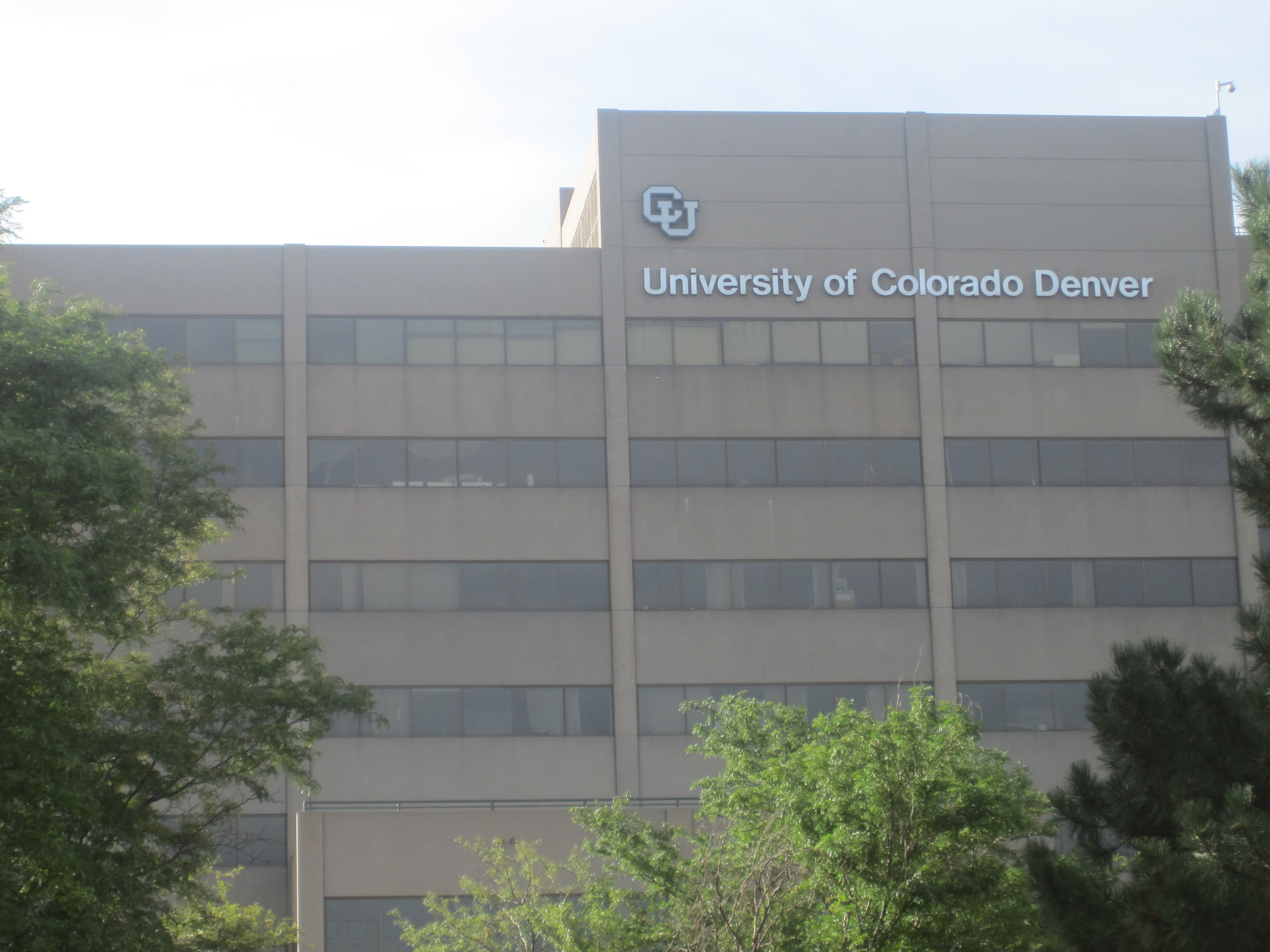 I took photo with Canon camera in Denver, CO.